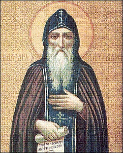 Lazarus of Murom (Lazarus Muromski, Lazarus Murmanski), Greek/Russian orthodox saint (1286-1391)